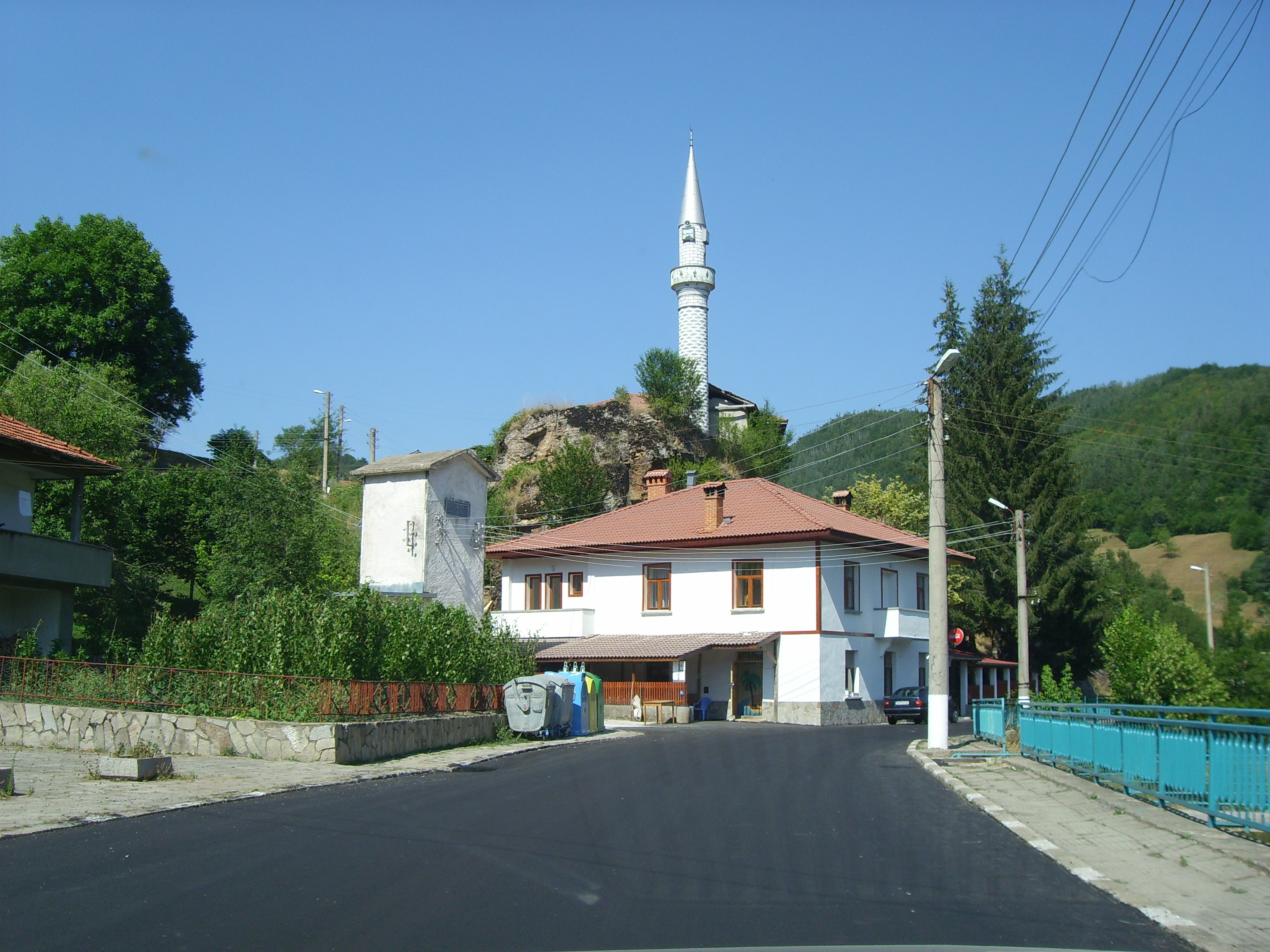 The mosque in the village of Arda, Smolyan District.